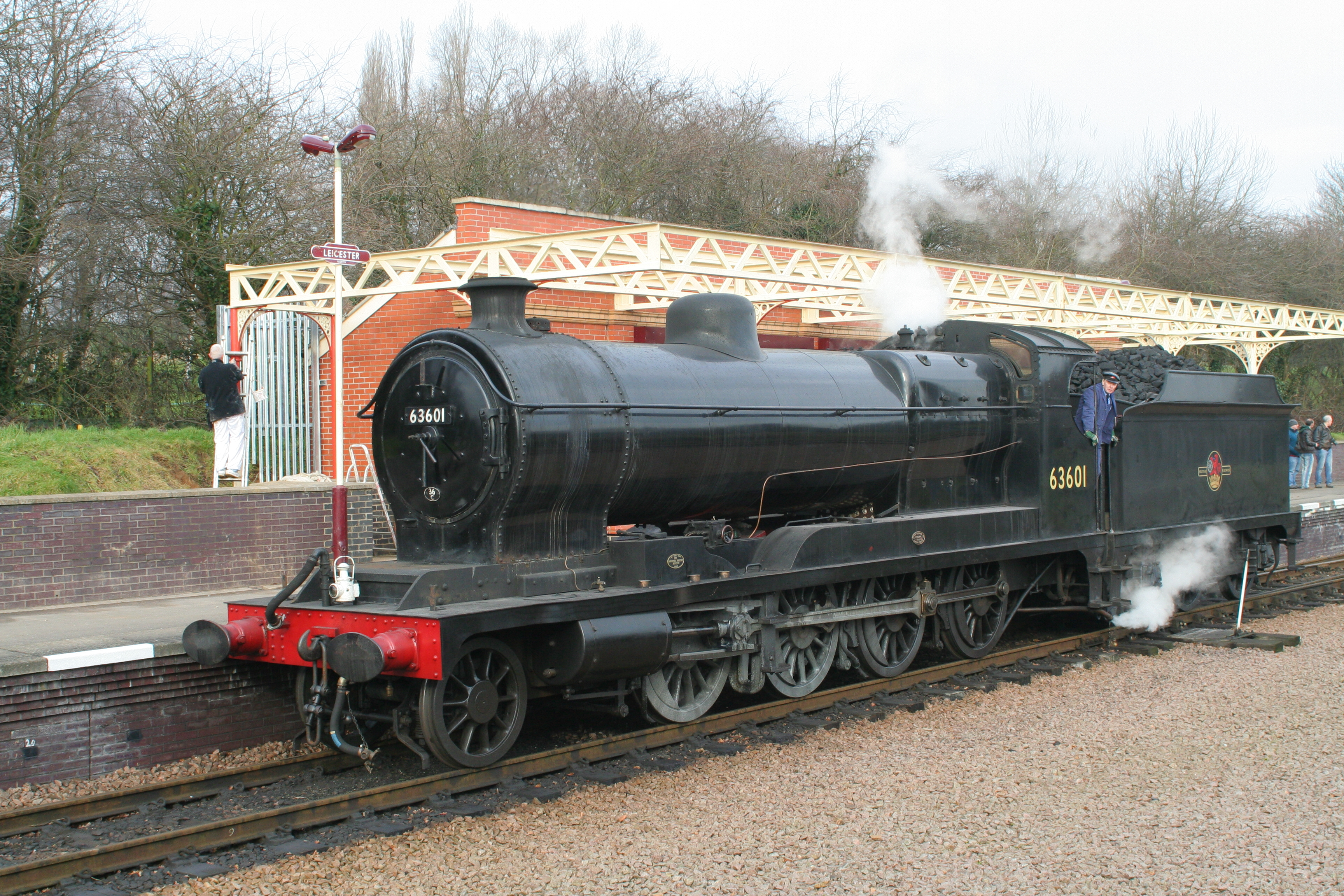 63601 draws forward at Leicester North...